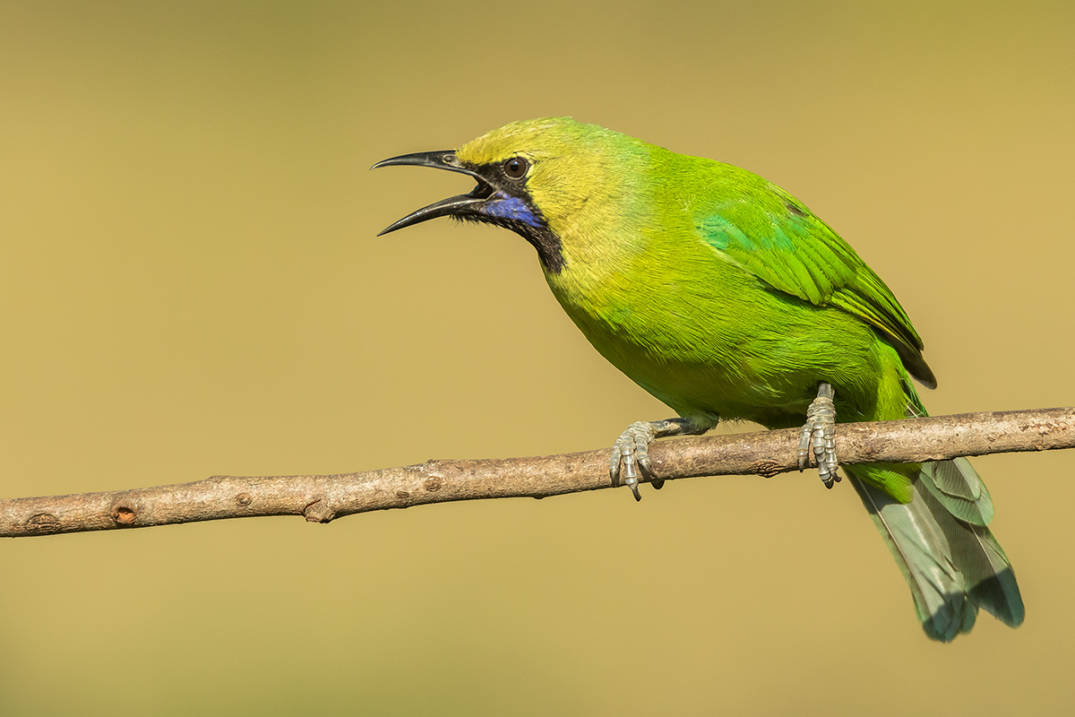 Male Jerdon's Leafbird in Bangalore India